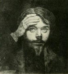 From René Martineau's book Léon Bloy (Souvenirs d'un ami) (Léon Bloy; memories of a friend).